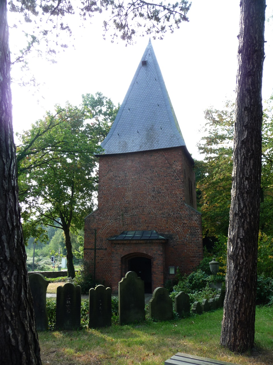 tower of the old evang.-ref. church in Bremen-Blumenthal